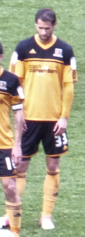 Nick Proschwitz. Image cropped from original at flickr.